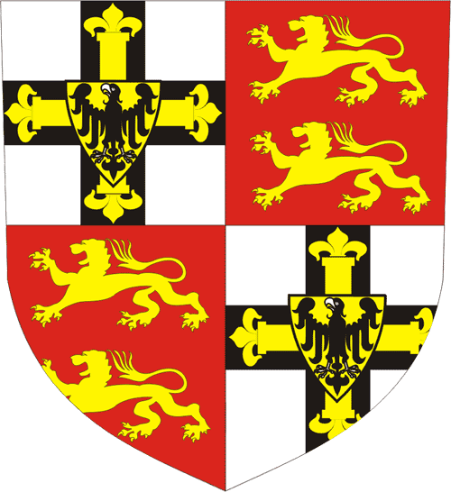 Teutonic Order - Coat of Arms of the Grandmaster Luther von Braunschweig